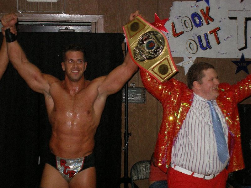 Professional wrestler Romeo Roselli as the New England Pro Wrestling (NEPW) Heavyweight Champion at an NEPW show in August 2007